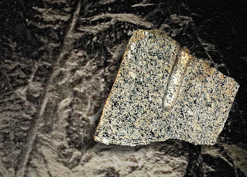 Composite illustration of hand drilling marks on the granite walls inside of CPRR Tunnel #6 (the "Summit Tunnel") and a piece of granite removed from the tunnel after blasting with a drill mark. Both digital photographs and composite illustration by the uploader (Centpacrr). Drilled granite sample in uploader's collection, "The Cooper Collection of US Railroadiana".